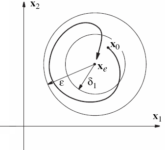 Illustration of Asymptotic Stability